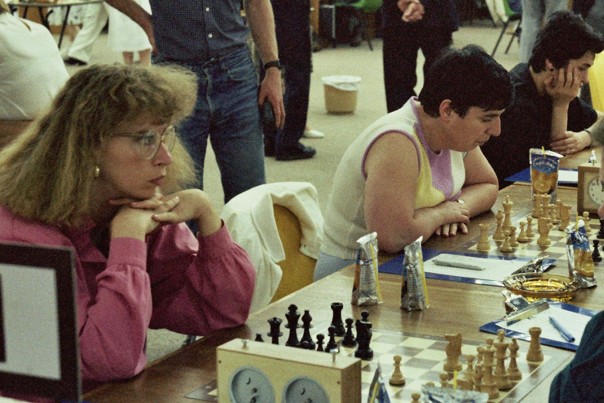 Akhmilovskaya, Gaprindaschwili and Alexandria, Chess Olympiad 1986 in Dubai, Photographer Gerhard Hund.